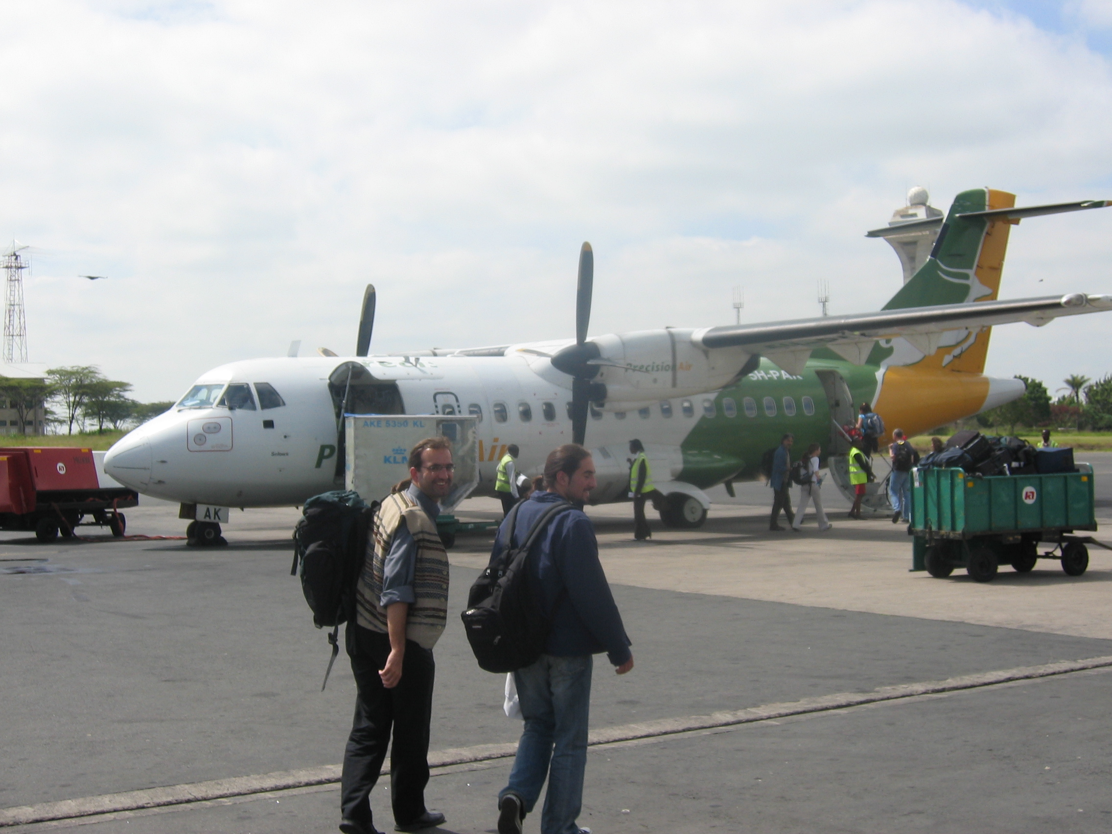 A Precision air ATR 42 in Kenya bound for Tanzania.